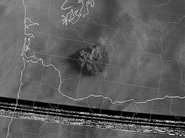 Mt St Helens as photographed by NOAA GOES-3 satellite